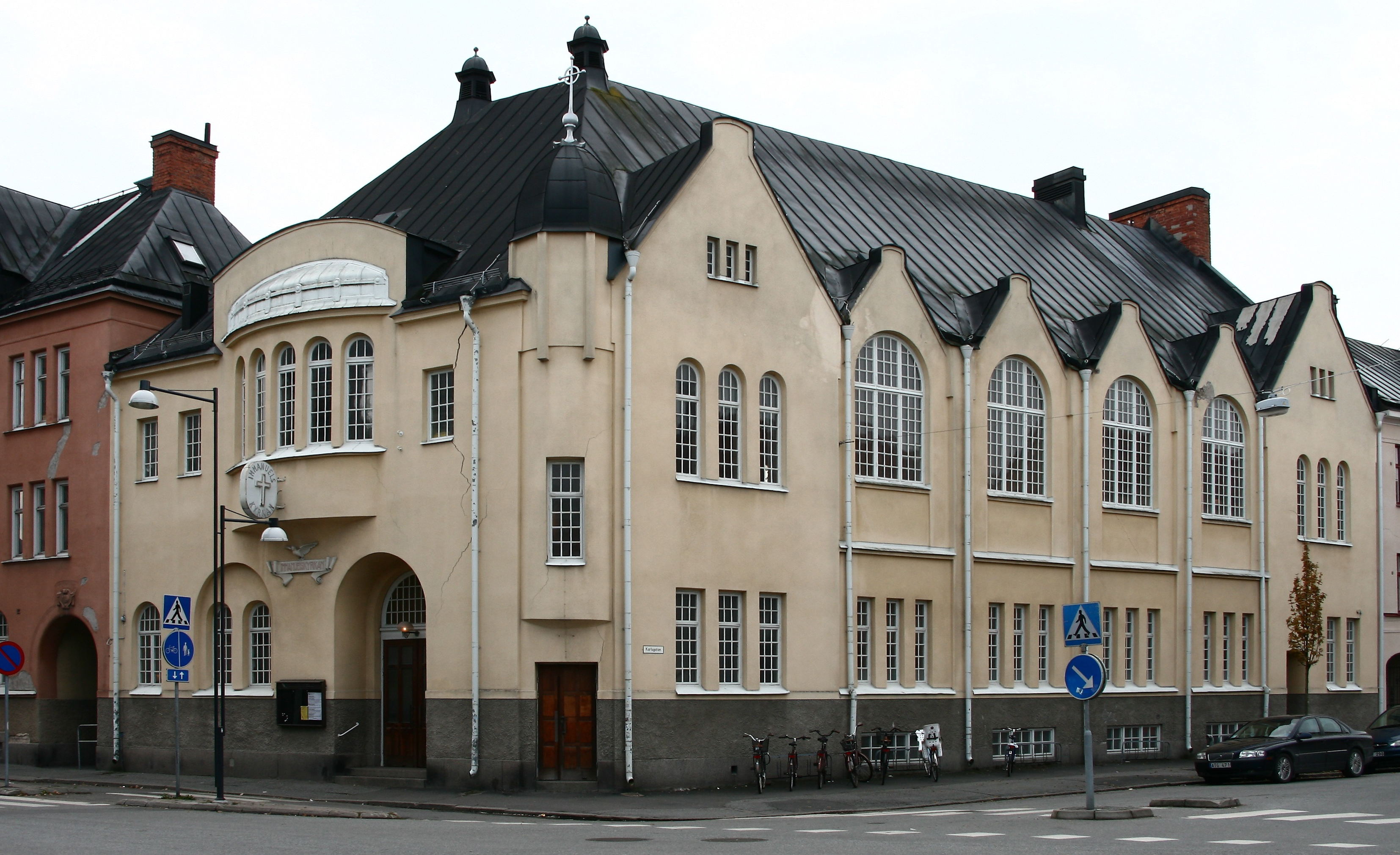 Immanuelskyrkan, baptist church in Örebro, Sweden, built in 1908.